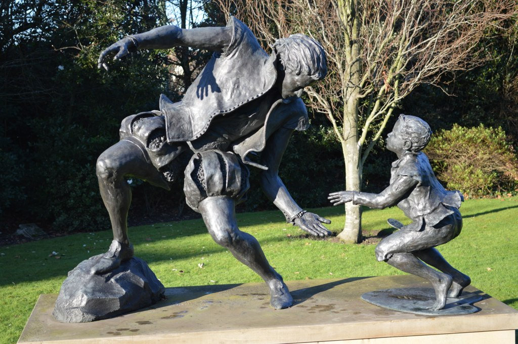 Edward Alleyn Statue